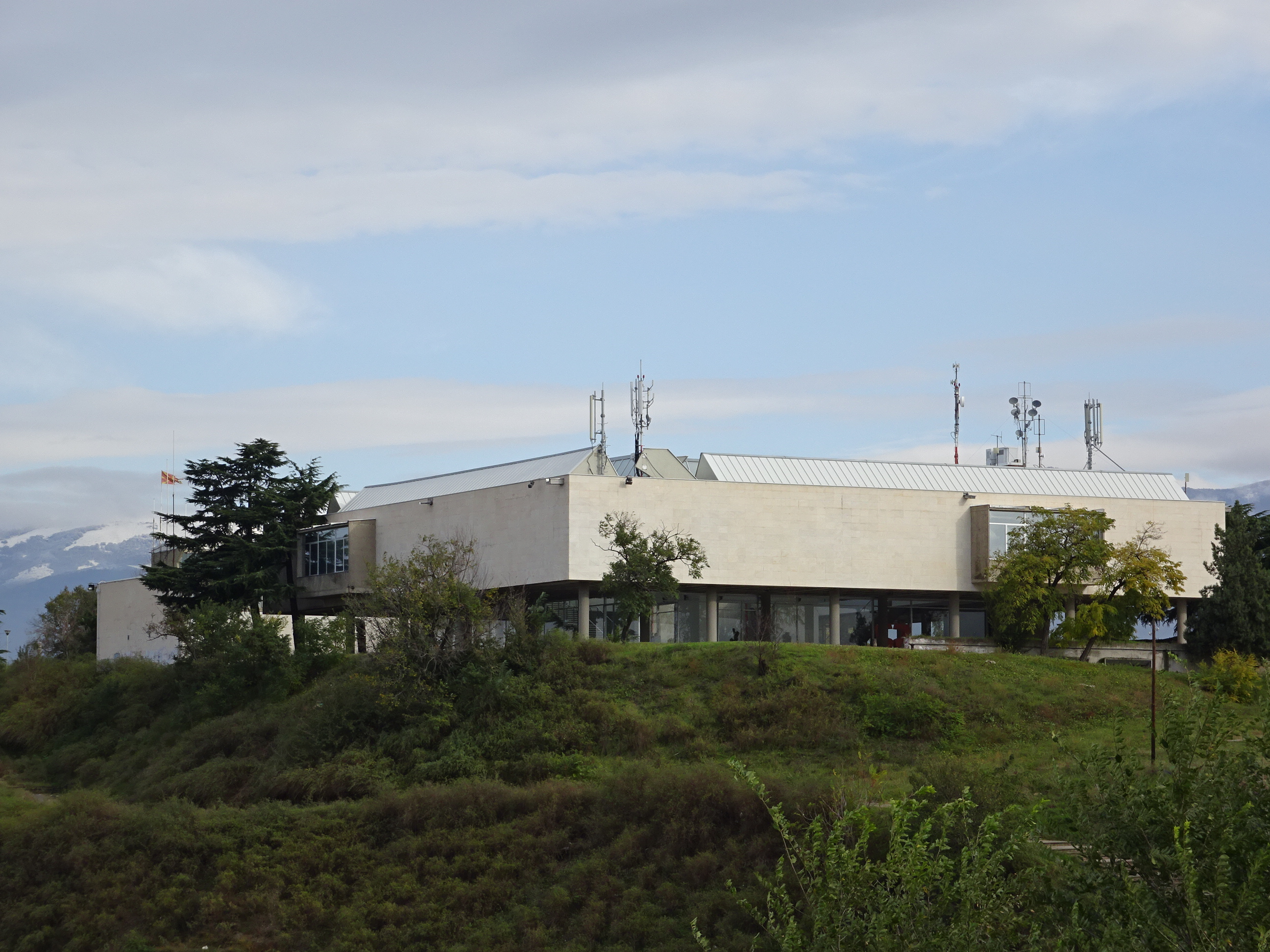 The Museum of Contemporary Art in Skopje-Macedon Ова е фотографија на споменик на културата во Македонија со типски код: B08This is a a photo of a cultural monument in North Macedonia with type id: B08